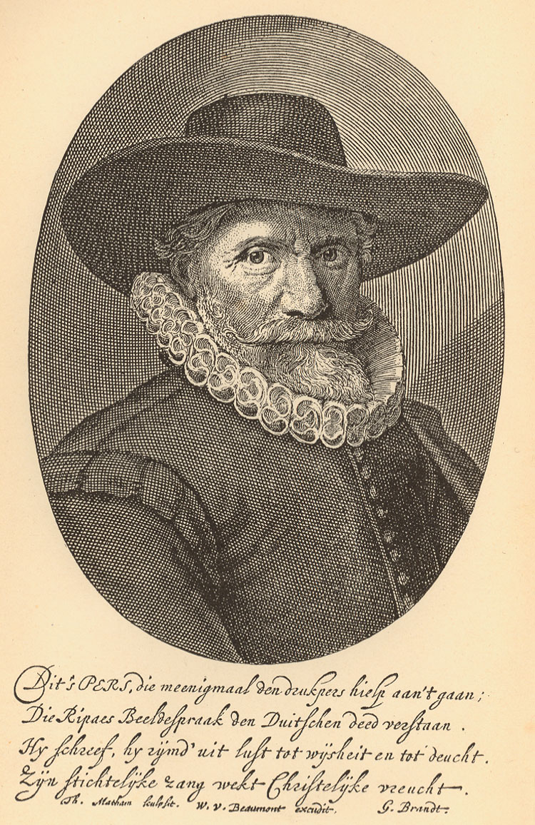 Portrait of Dirck Pietersz. Pers buy Th. Matham